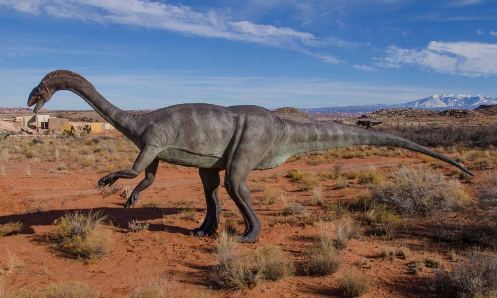 Jeden z modeli dinozaurów w Moab, USA.